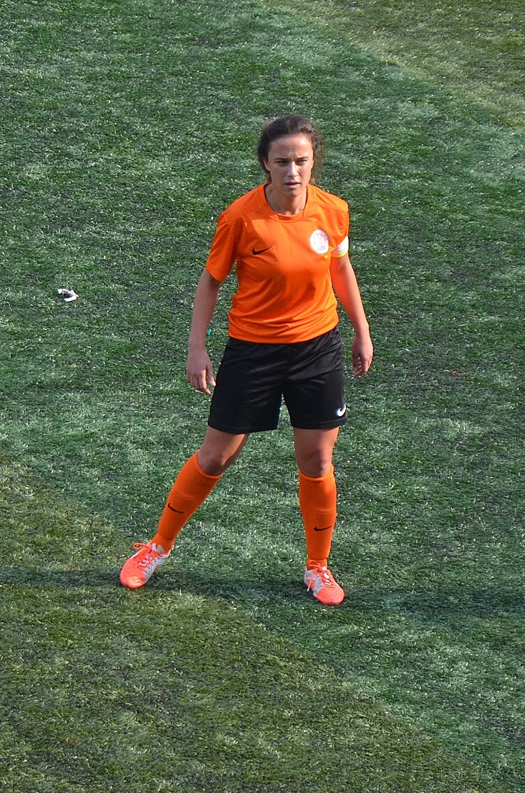 Esra Güler playing for 1207 Antalya Muratpaşa Belediyespor in the 2015-16 season's away match against Kireçburnu Spor